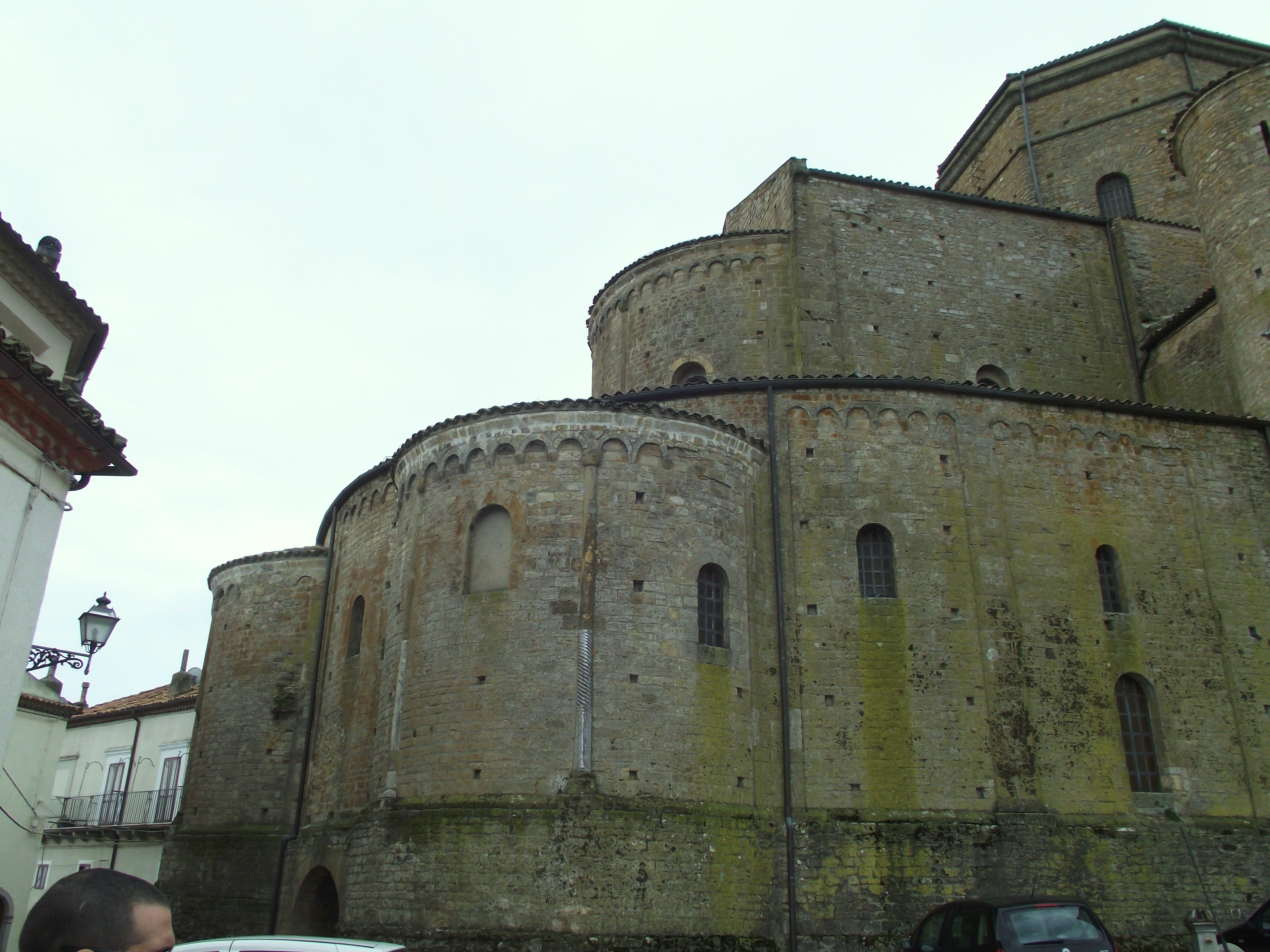 abside